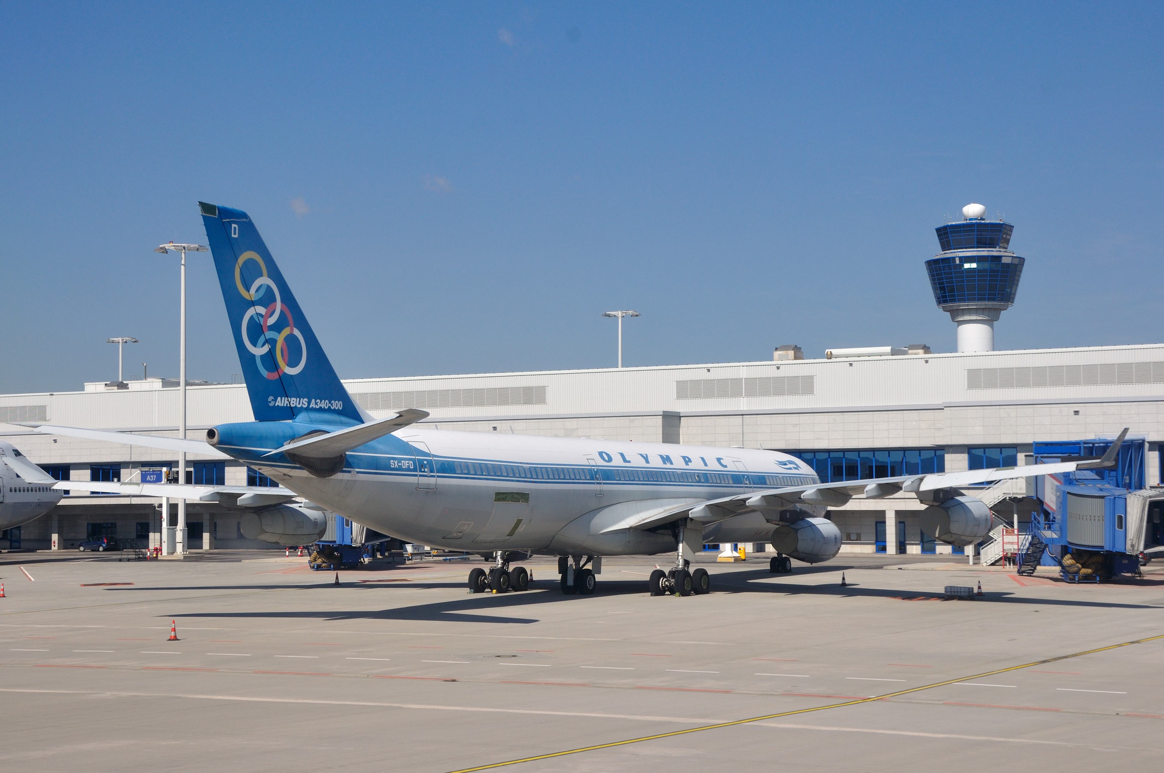 Greece, Olympic Airways A340-300 stored at Athens International Airport